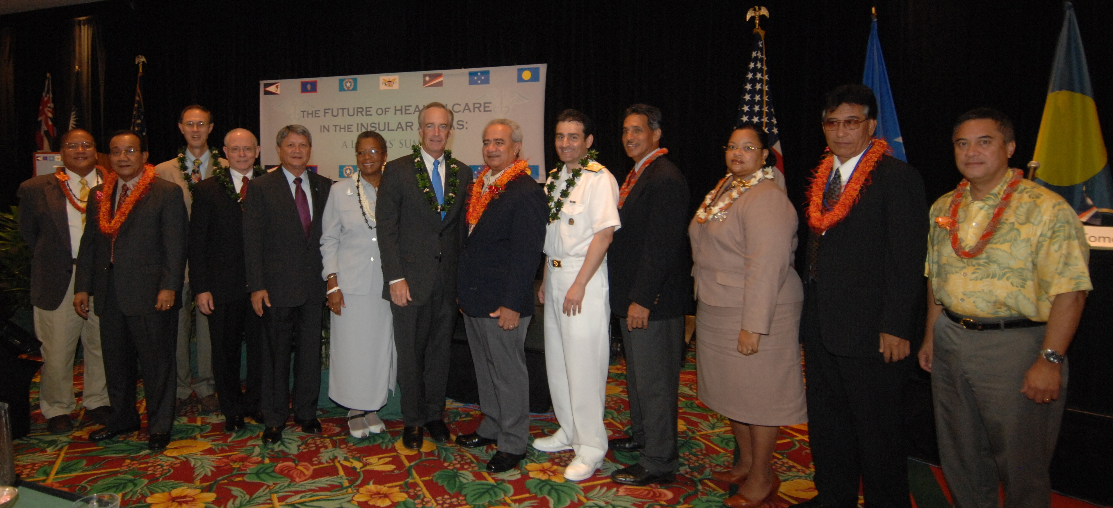 Secretary of the Interior Dirk Kempthorne joins federal and island leaders for a group picture at the Insular Areas Health Summit. From left, Northern Mariana Islands Health Secretary Timothy P. Villagomez; Marshall Islands President Litokwa Tomeing; Under Secretary of Defense for Personnel and Readiness David S.C. Chu; Secretary of Veterans Affairs James B. Peake; Republic of Palau Vice President Elias Chin; USVI Delegate to Congress Donna M. Christensen; Secretary Kempthorne; American Samoa Gov. Togiola Tulafono; Health and Human Services Assistant Secretary of Health Dr. Joxel Garcia; Hawaii Lt. Gov. James Aiona; U.S. Virgin Islands Health Commissioner Vivian Ebbesen Fludd; Federated States of Micronesia President Manny Mori; and Guam Gov. Felix Camacho.